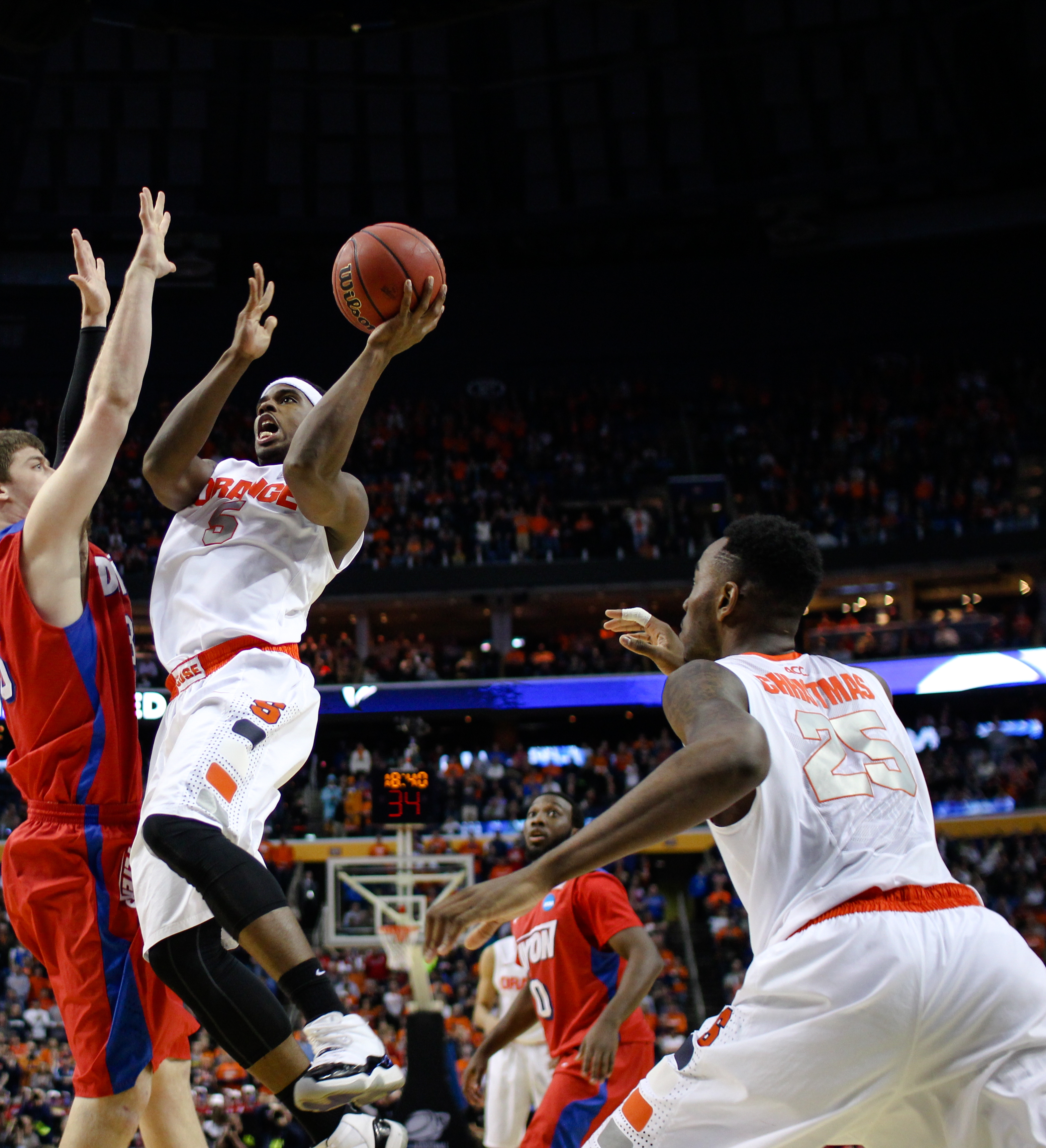 C.J. Fair and Rakeem Christmas against Dayton, NCAA Tournament 2014